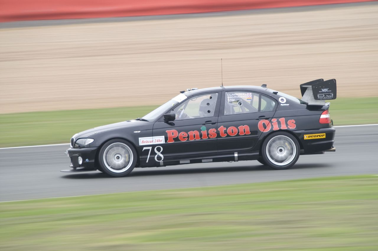 The Top Gear BMW 330d at Silverstone in the Britcar 24h race.